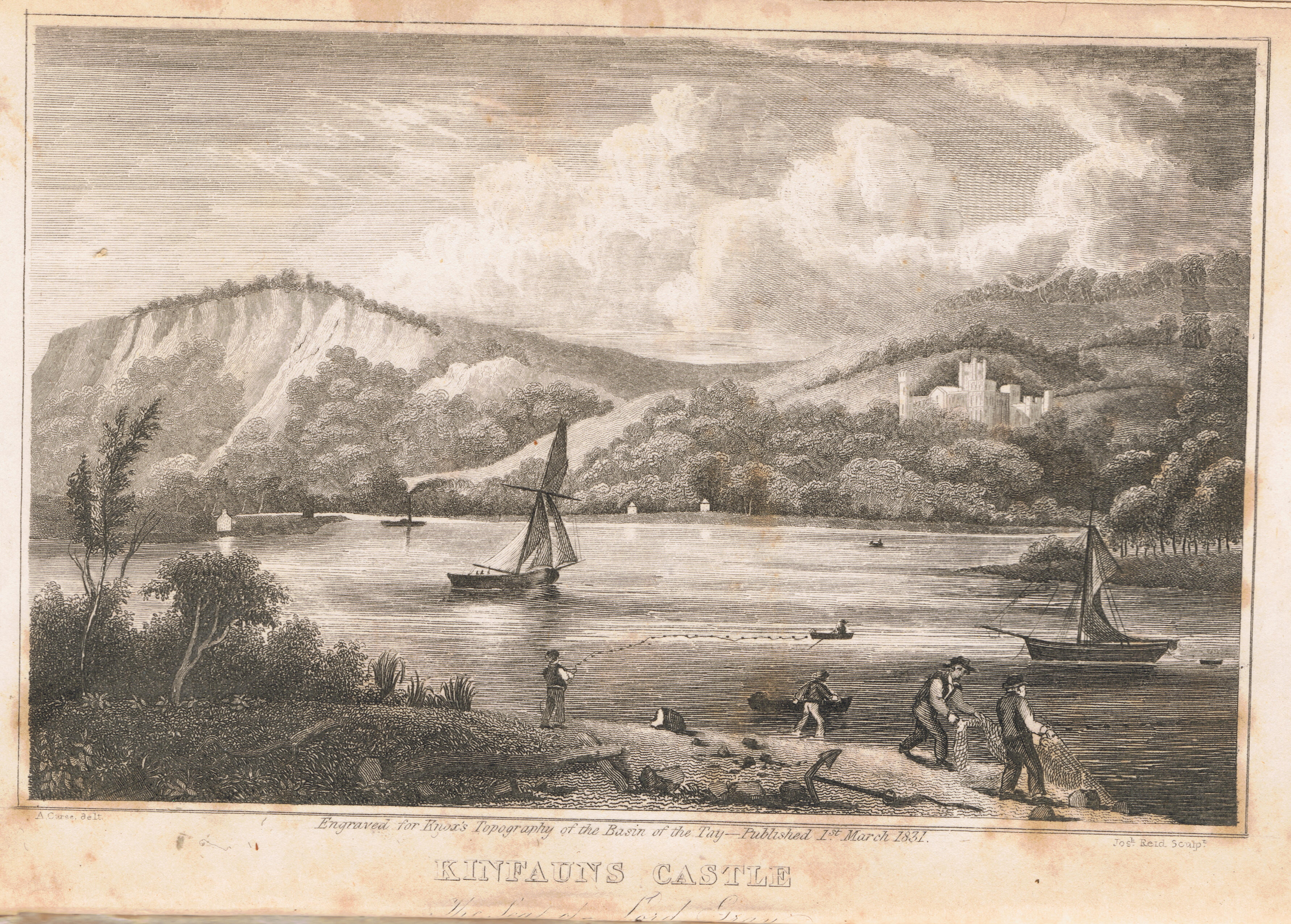 Scan (by me, R. de Salis, Rodolph (talk) 23:47, 14 December 2014 (UTC)) of Kinfauns castle, engraved by J. Reid after A. Carse, in Knox's Topography, 1831.